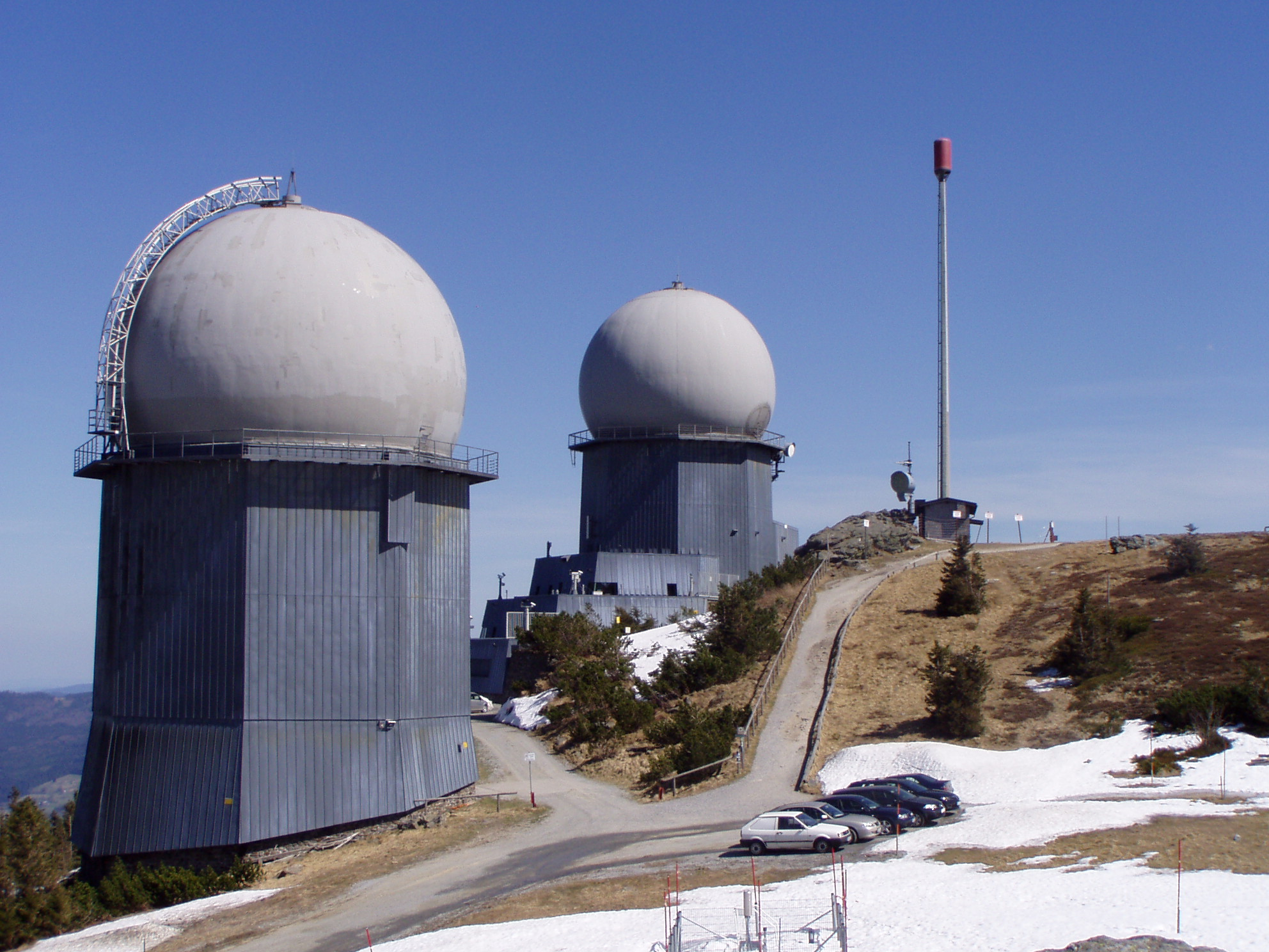 Großer Arber with both radomes of the Remote Technical Platoon 358 (Tactical Air Command and Control Service of the German Air Force). The Radome on the right-hand side accommodates a RRP 117 sensor, however, the Radome on the left-hand side is empty and not any more in operation.